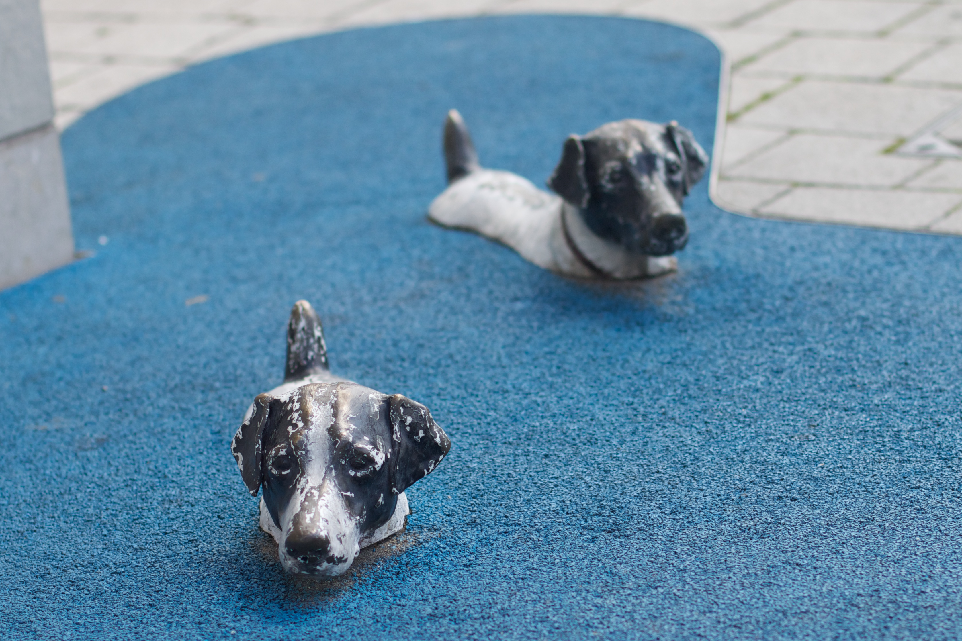 Swimming Dogs sculpture in Millennium Square, Bristol, UK